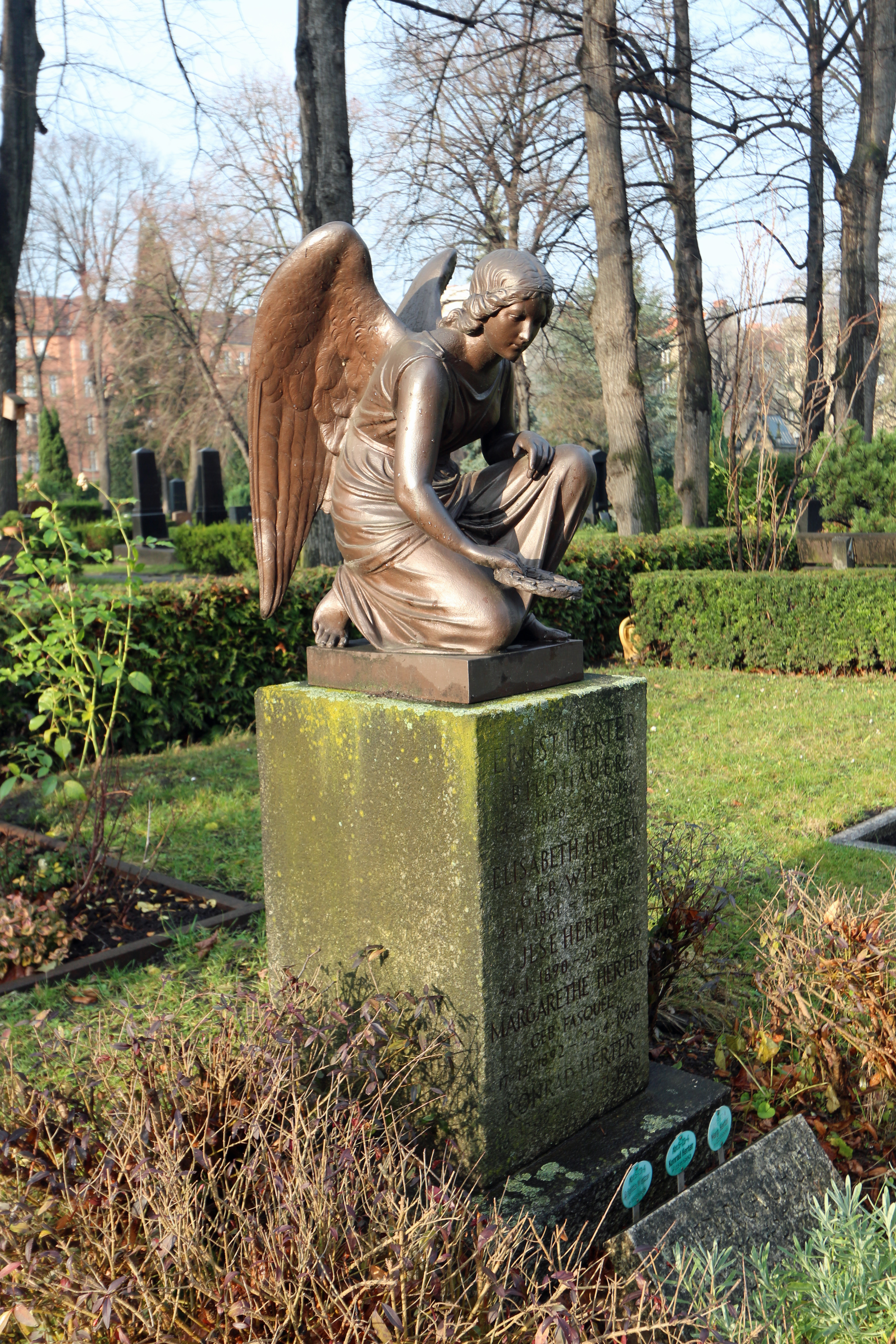 Grave of Ernst Herter, Alter Friedhof 12-Aposter-Gemeinde Berlin-Schöneberg, Germany Inscription: Ernst Herter, Bildhauer [sculptor], 14.5.1846-19.12.1917; Elisabeth Herter geb. [nee] Wiebe, 4.11.1861-18.1.1939; Ilse Herter, 24.1.1890-28.2.1943; Margarethe Herter geb. [nee] Fasquel, 17.12.1892-22.4.1969; Konrad Herter, 16.12.1891-23.11.1980; plate: Friederica Claus, 13.6.1881-2.7.1962; Brigitta Wintzer geb. [nee] Herter, 19.1.1899-13.5.1983